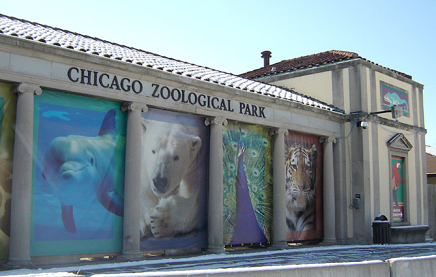 Brookfield Zoo entrance